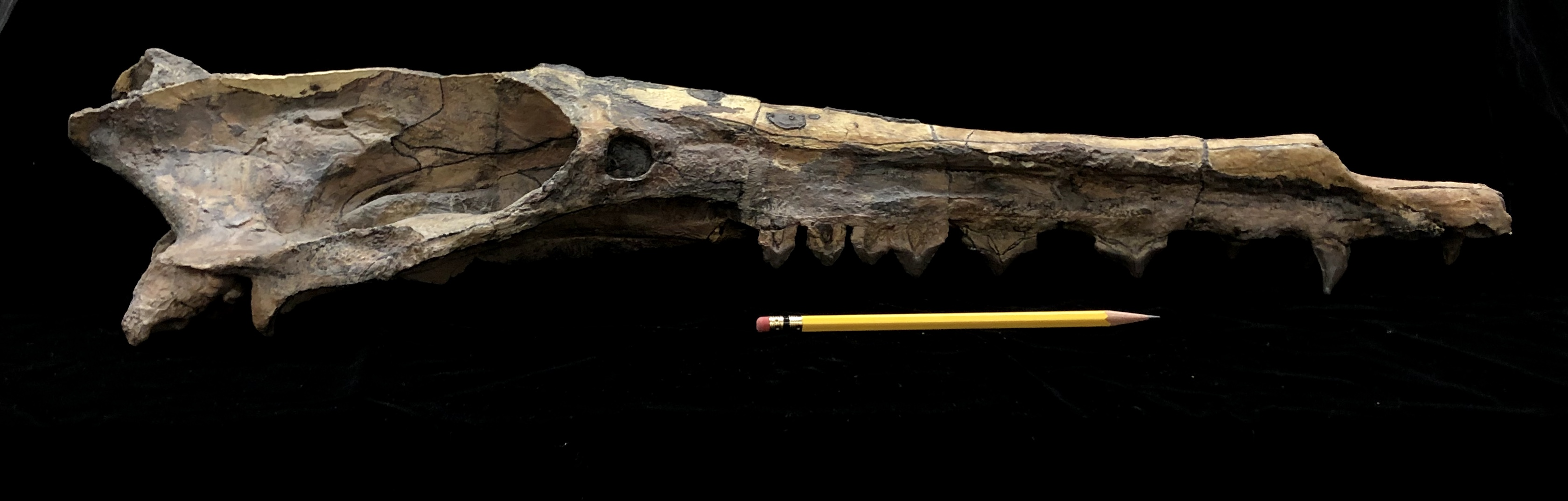 A cast of Remingtonocetus harudiensis (specimen number IITR-SB 2770)